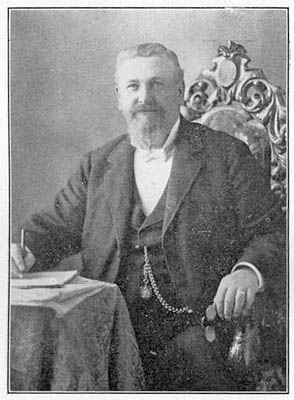 D. C. Reed Mayor, 1897; for thirty years in the forefront of real estate activity, with unfaltering faith in the city's destiny Smythe's History of San Diego (1907-08)